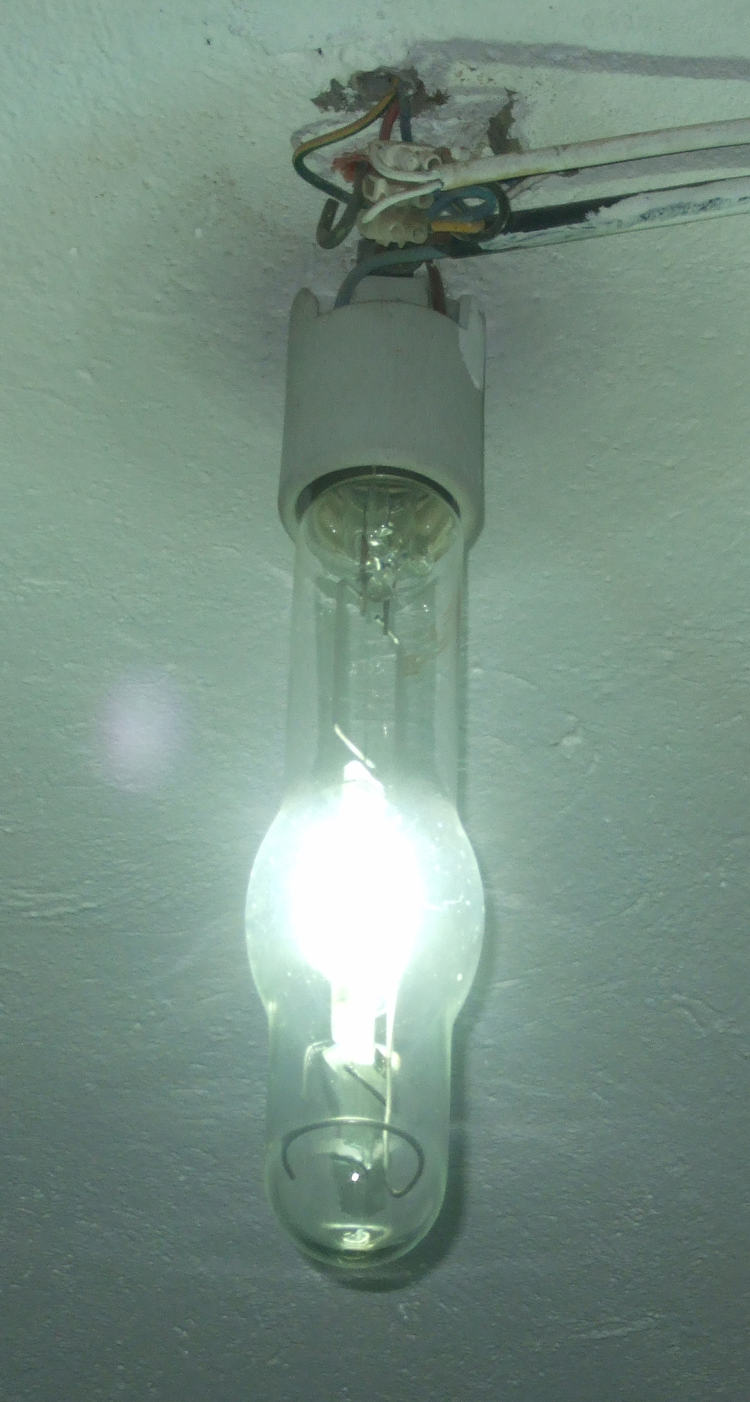 Metal halide light bulb is used dangerously way in Tunisia. Protective cover is missing.